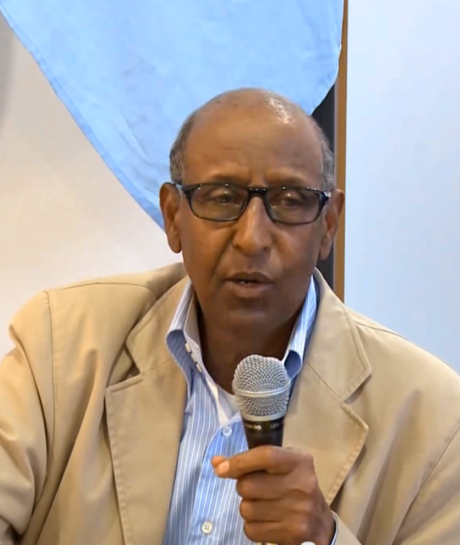 Somali Filmmaker Ali Said Hassan in a Somali Event in Germany.